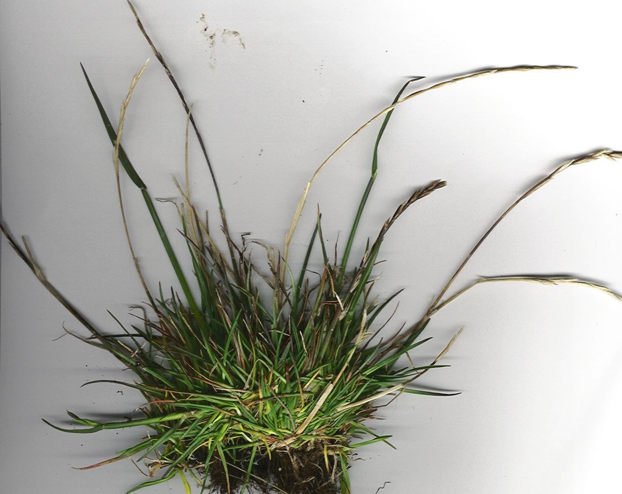 Lolium perenne (plant). Location: Maui, Kalahaku Haleakala National Park